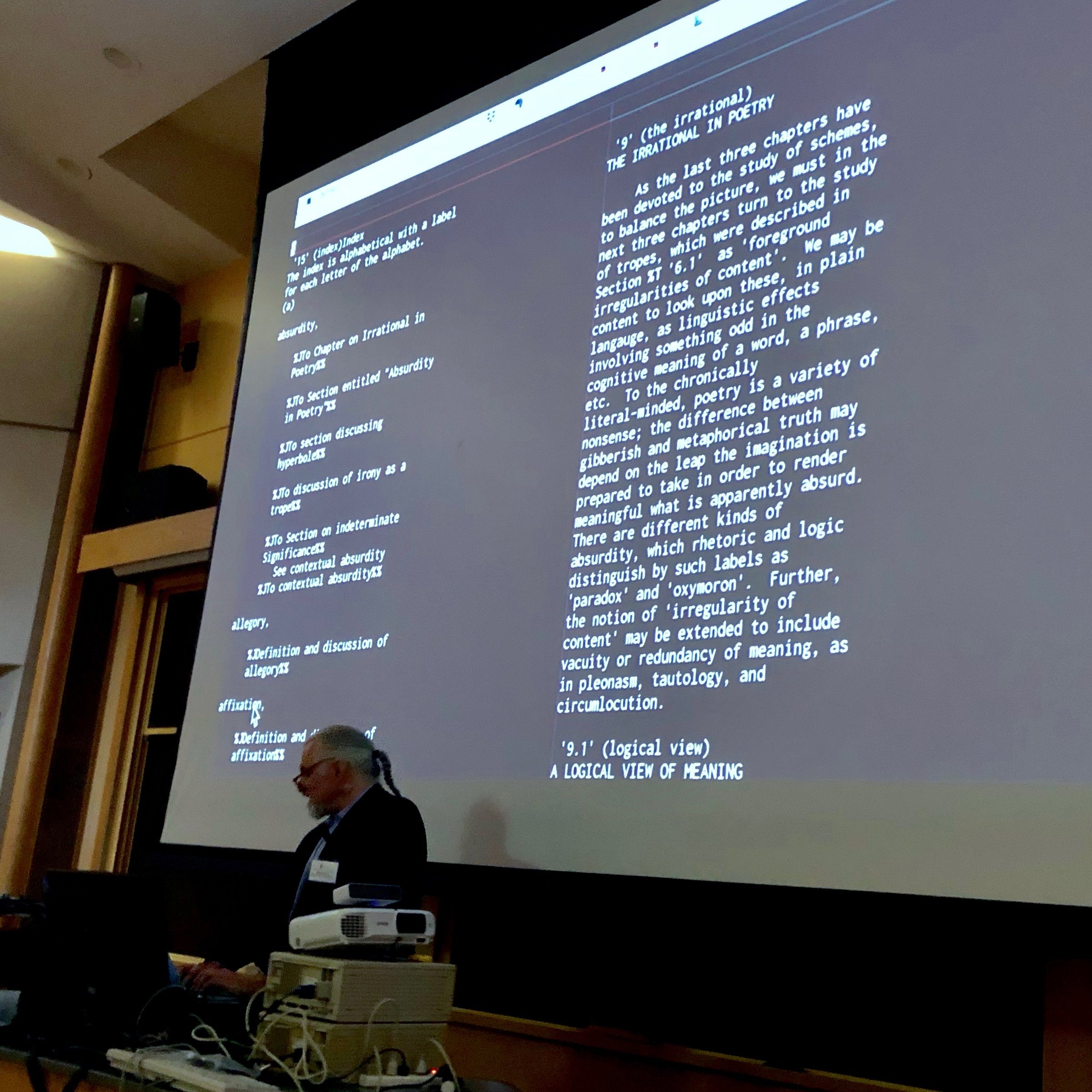 David Durand demonstrated the FRESS (File Retrieval and Editing SyStem) hypertext system at the 'Half-Century of Hypertext at Brown' Symposium, 23 May 2019, Brown University, Providence RI. The projection screen shows two text window views of a hypertext poetry corpus created as an NEH funded educational technology experiment in 1976. The left window shows a view of an index, the right window shows the text of one section of the poetry corpus. FRESS development started in 1968 as the successor to the HES (Hypertext Editing System) software created by Prof Andy van Dam, Brown University, Ted Nelson, and a team of Brown students. FRESS was used at Brown and several other organizations for educational hypertext and document production through the late 1970's. Durand and Steven DeRose recovered the original source code and a corpus of FRESS documents for the ACM Hypertext '89 conference and offered live demonstrations using emulator technology they developed. Tyler Schicke worked with Durand to develop a new version of the emulator (shown in this photo) for a Computer History Museum event in 2018. See the FRESS Wikipedia page for details.